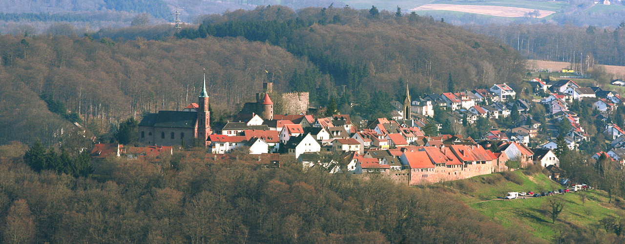 View from the Goetheblick over the river Neckar to Dilsberg.